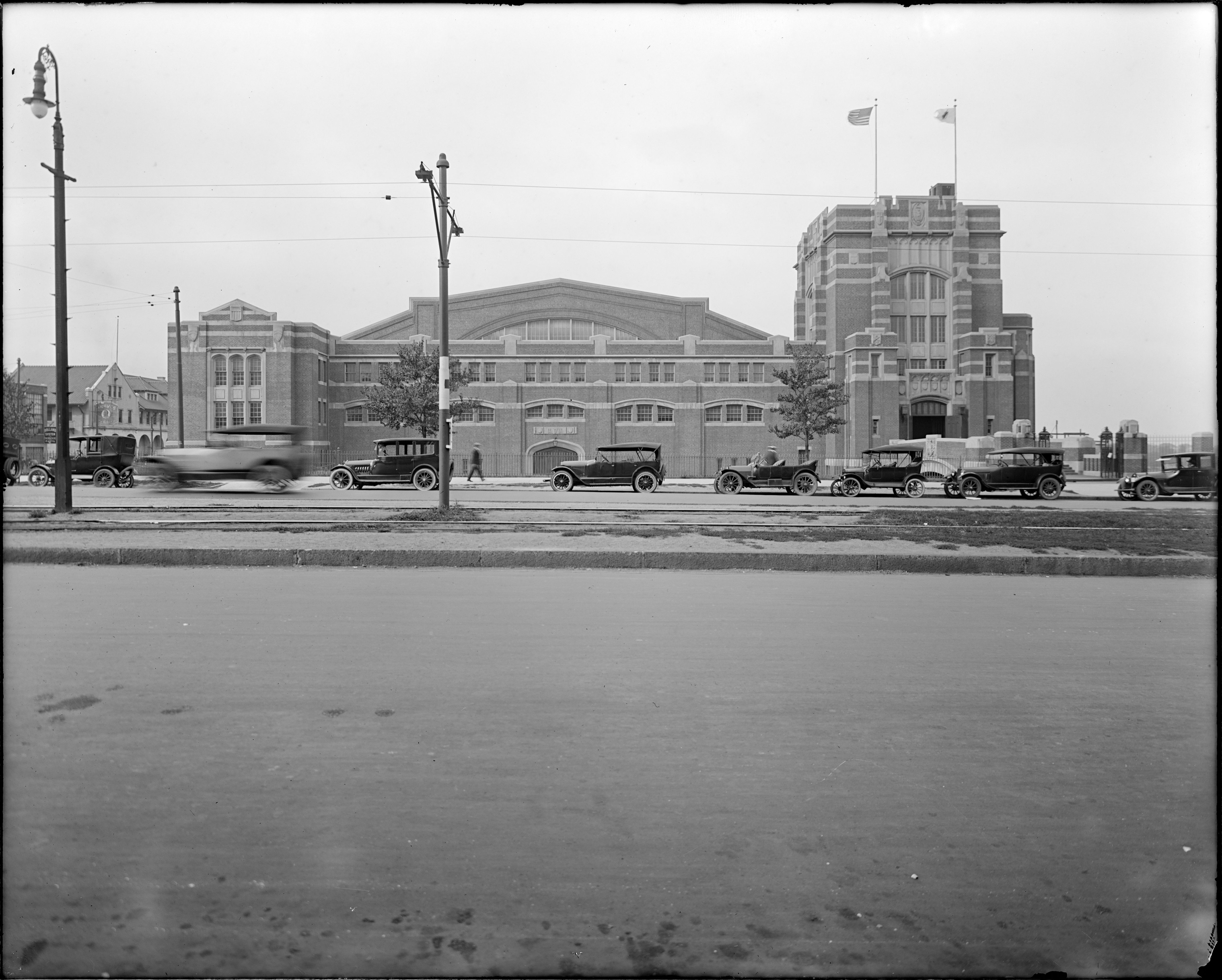 Commonwealth Armory in September 1920